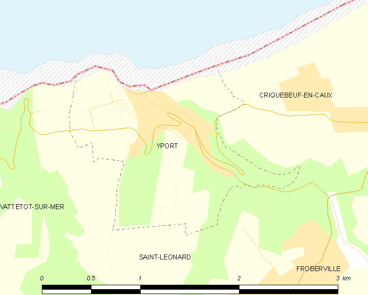 Map of French municipality Yport